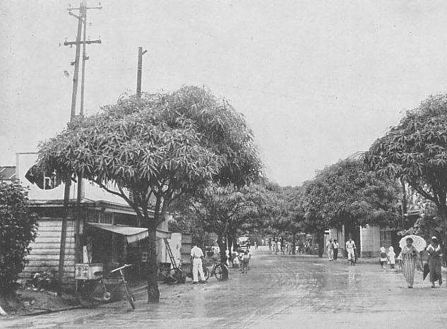 Koror in 1930s